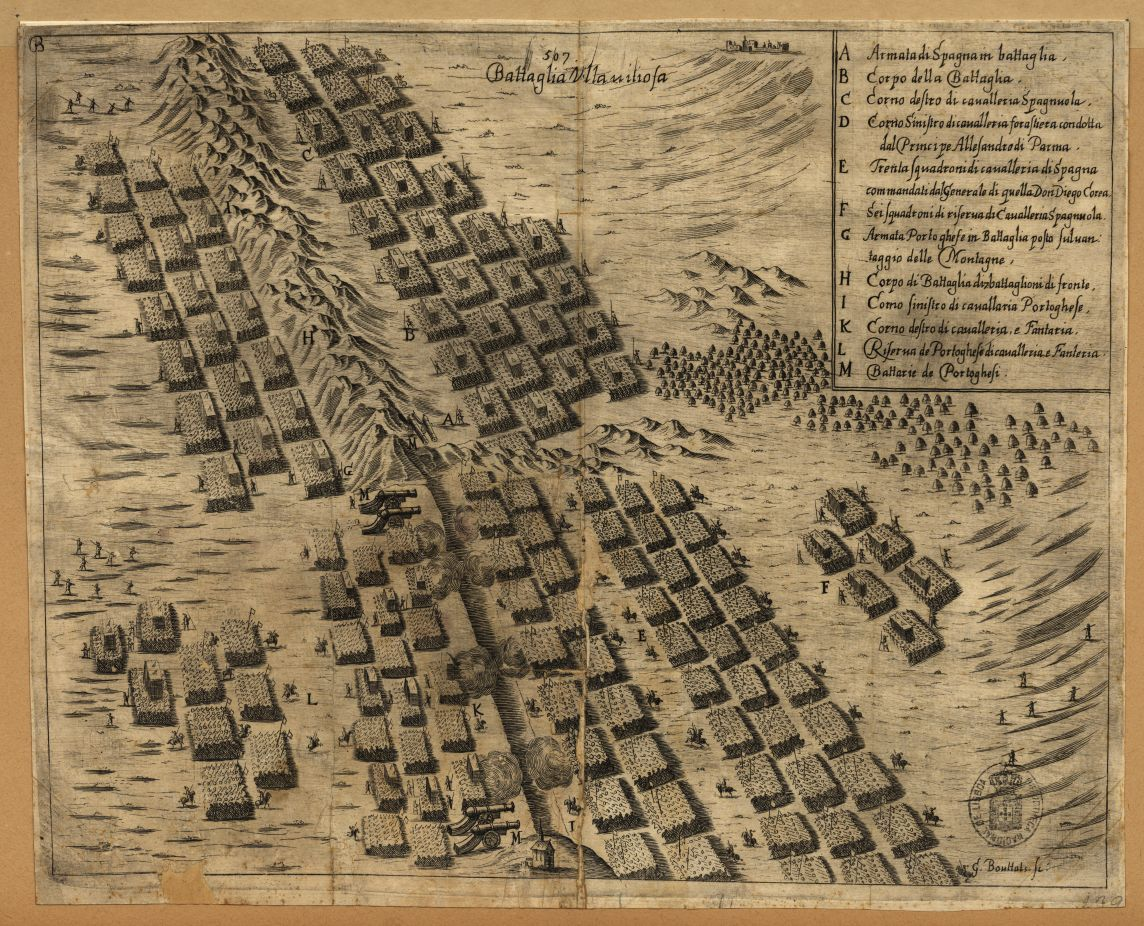 Italian seventeeth century engraving about the Battle of Montes Claros at the National Library of Lisbon